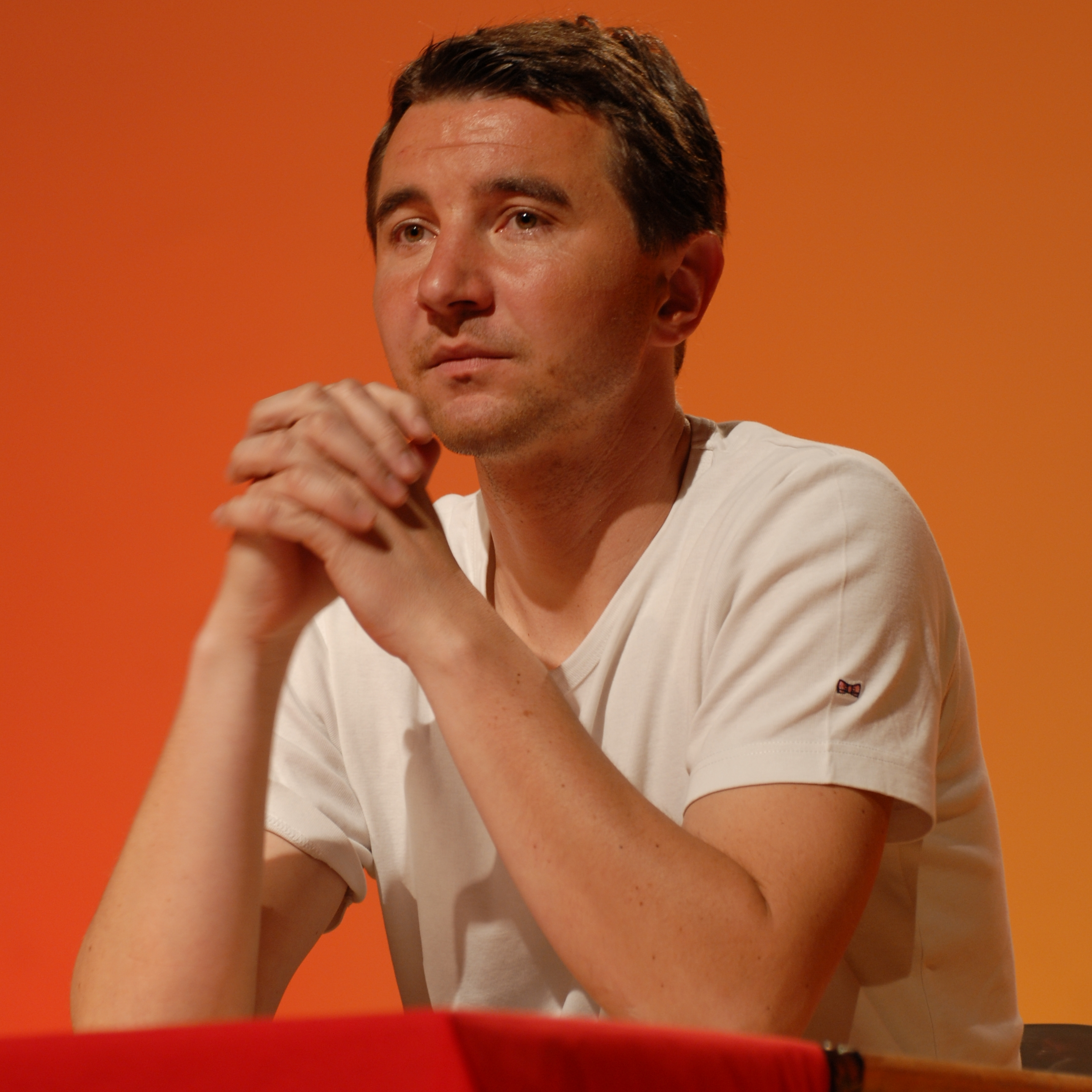 Olivier Besancenot during her meeting in Toulouse on April, 20th 2007 for the 2007 presidential election.